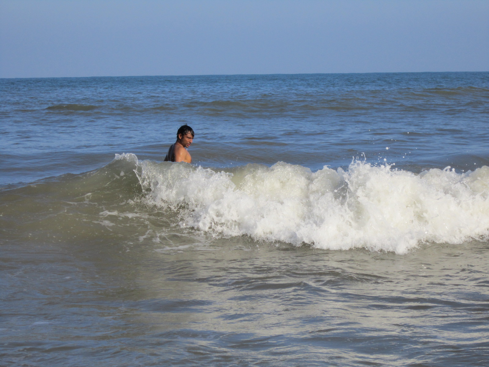 Ocean tides at shore